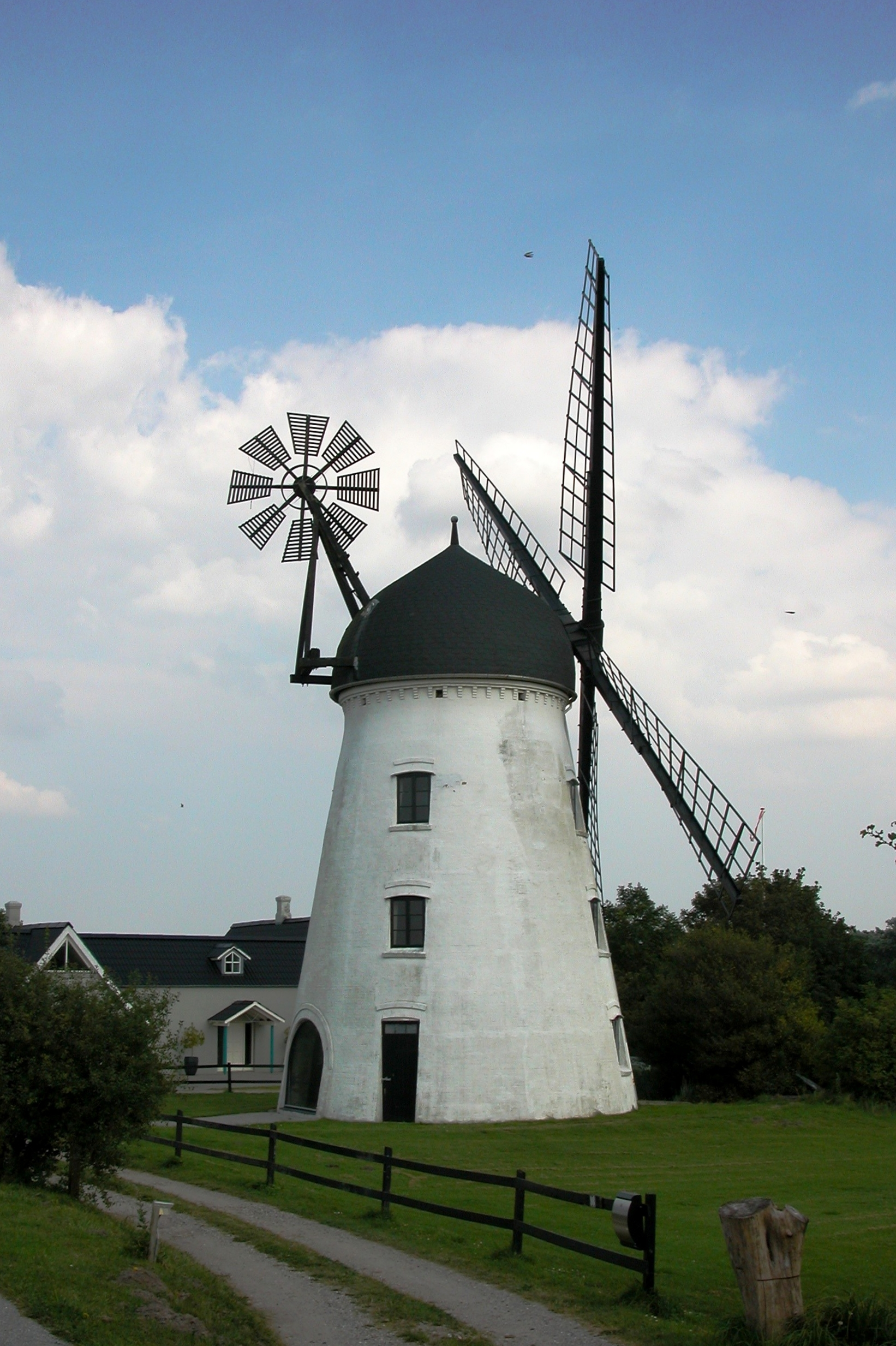 windmill of Stegø, Bogense, Fyn, Denmark